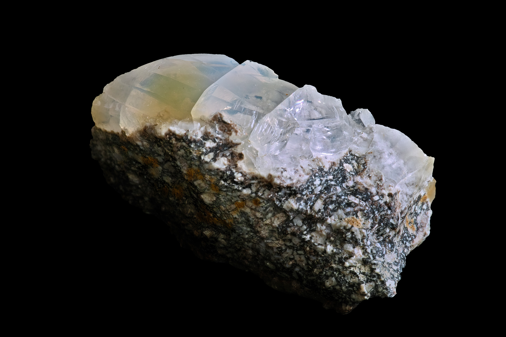 Hyalite on andesite, Dubnik near Presov, Slovakia (1990)